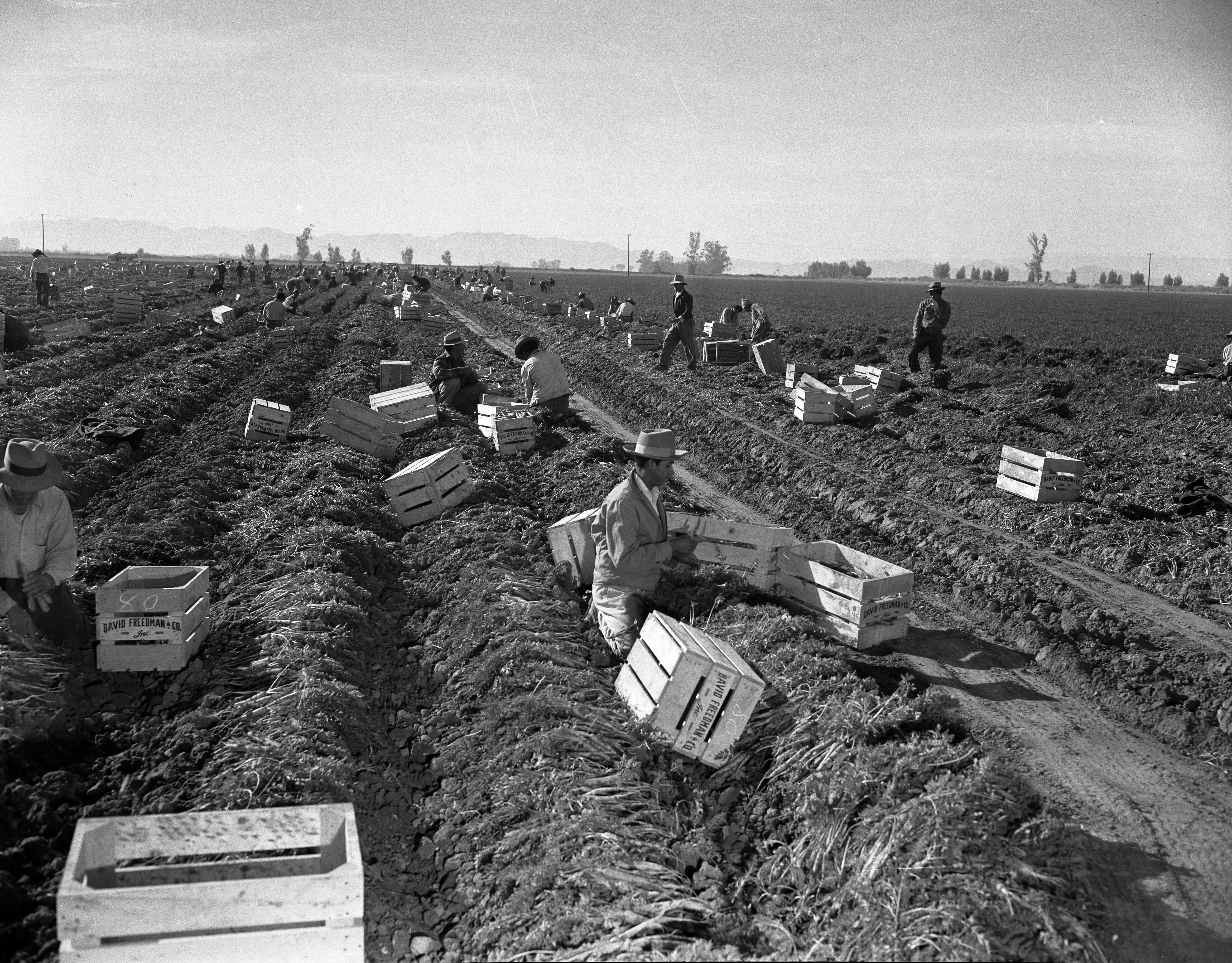 Title: Landscape view of agricultural workers harvesting carrots into "David Freedman & Co., Inc" crates in Imperial Valley, Calif., circa 1948 Publication: Los Angeles Daily News Publication date: circa 1948 Notes: Handwriting on negative states "Imperial irrigation Imperial Valley" Source: Los Angeles Times photographic archive, UCLA Library